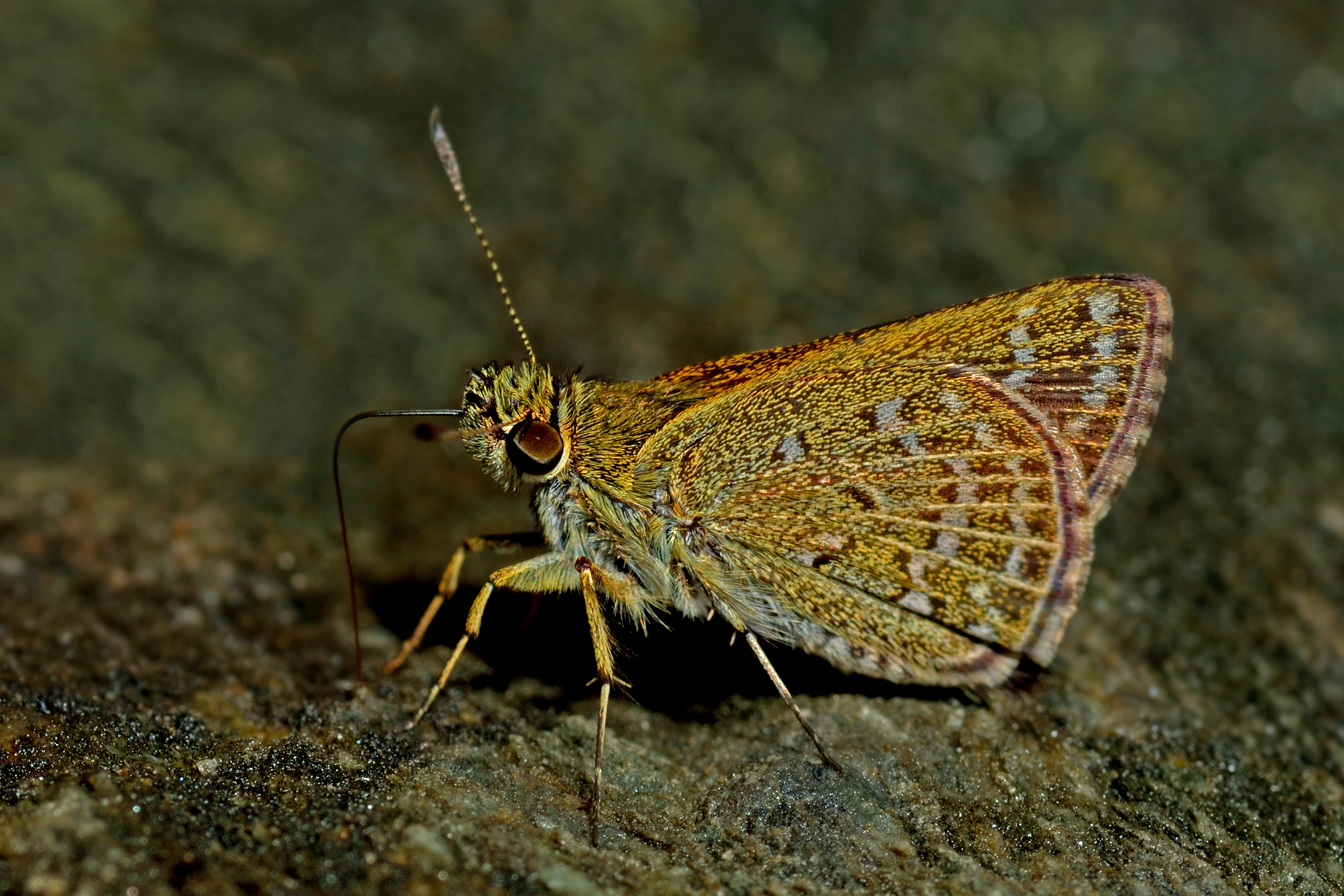 Close wing position mud-puddle of Aeromachus stigmata Moore, 1878 – Veined Scrub Hopper. Specimen belongs to sub-species Aeromachus stigmata stigmata Moore, 1878 – Himalayan Veined Scrub Hopper.This species has the wingspan of 22-30 mm.